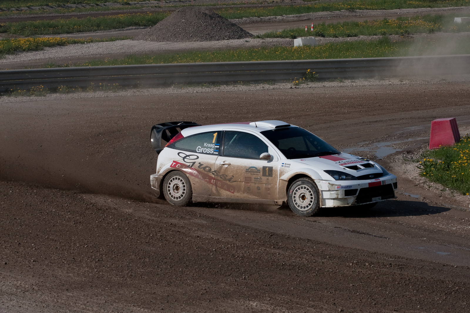 Tallinna ralli 2010 - fastest car. got 3min. penalty because there was a fire on electric system at SS1.